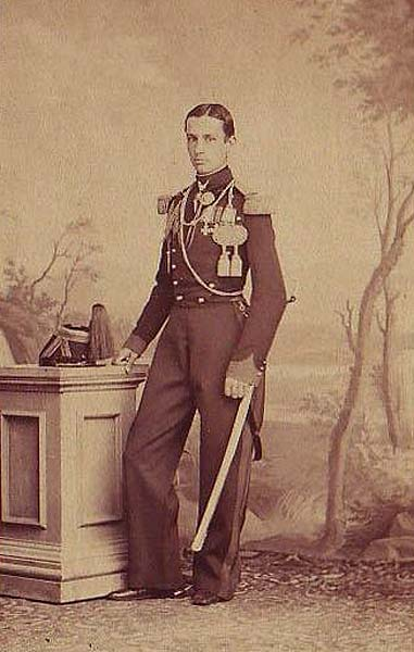 Prince Alfonso, Count of Caserta (1841-1934)